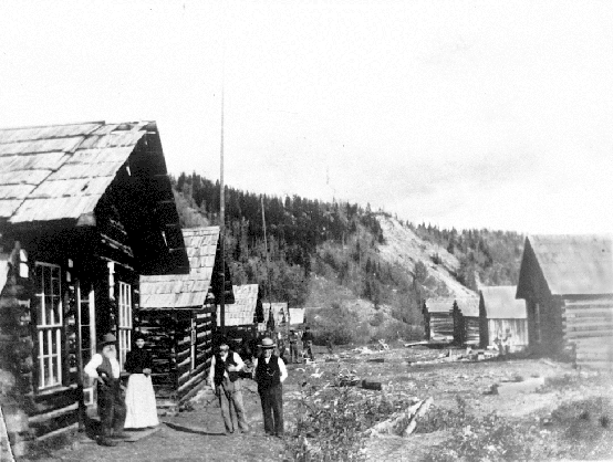 Photo taken 1888 Photograper Unknown BC Archives #B-00696 [1]